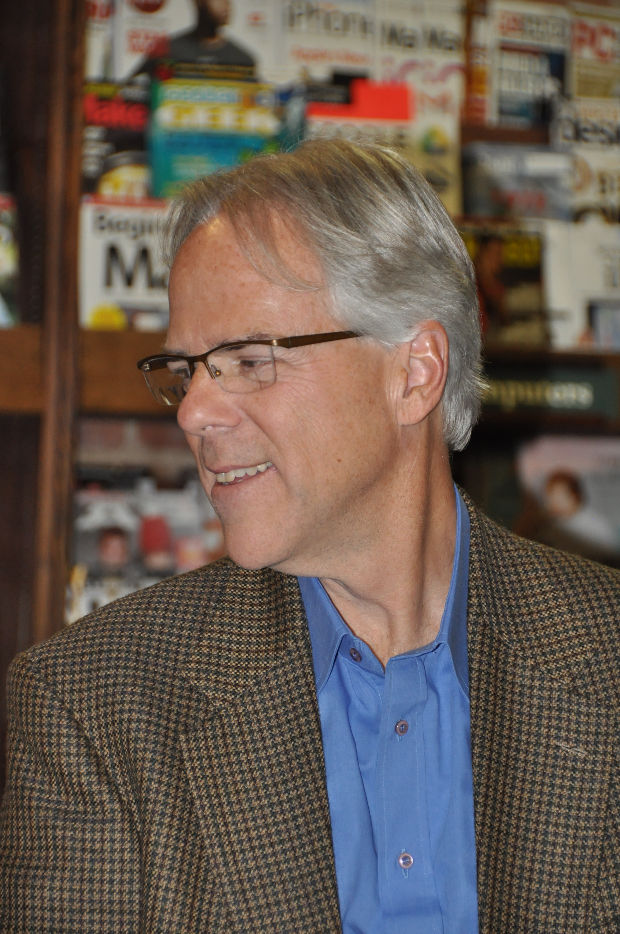 Writer Edward Hamlin at Tattered Cover Bookstore, Denver, 2015